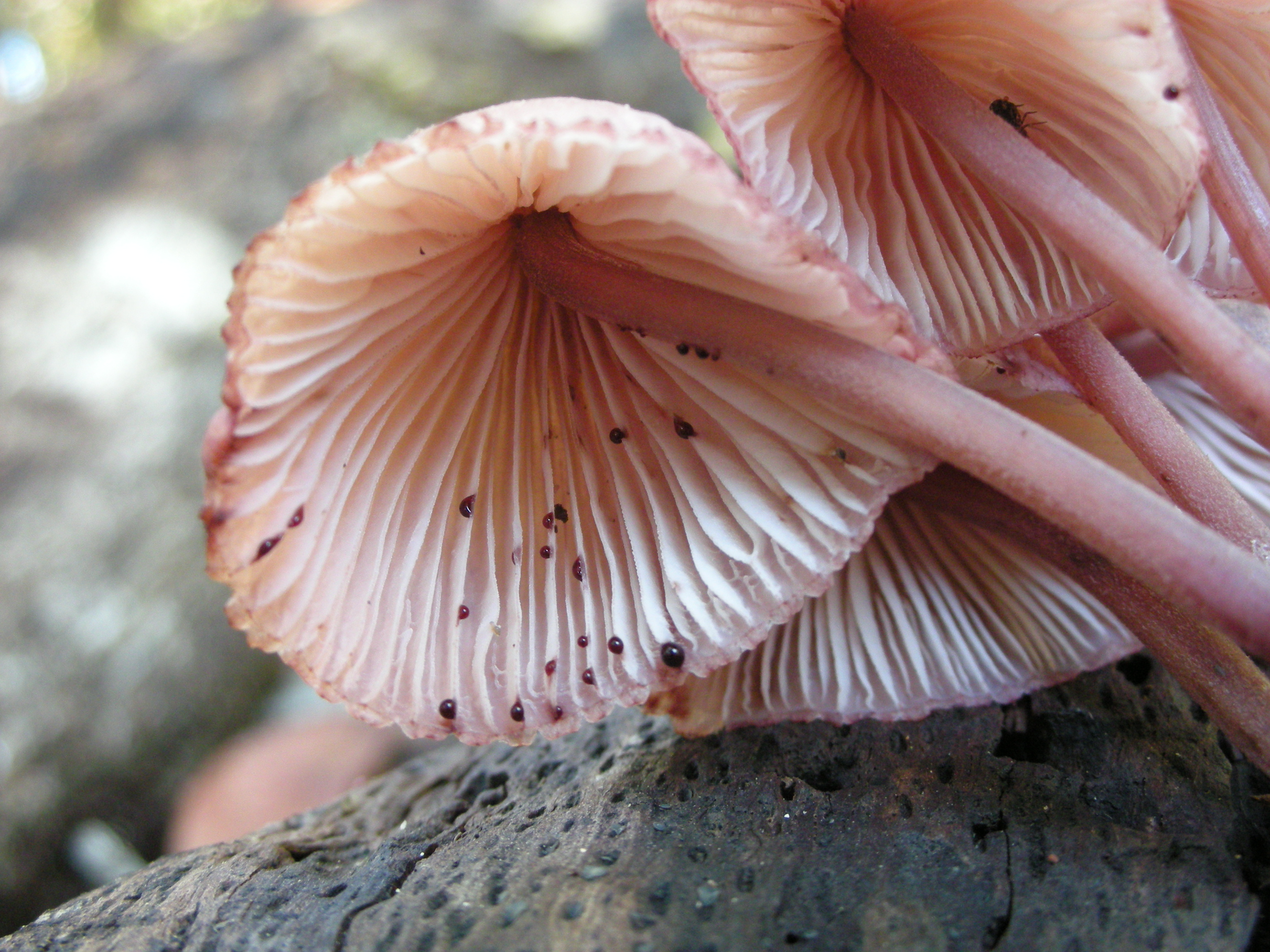 The "bleeding Mycena", species Mycena haematopus (Pers.) P. Kumm. Photographed in San Geronimo, Marin Co., California, USA.